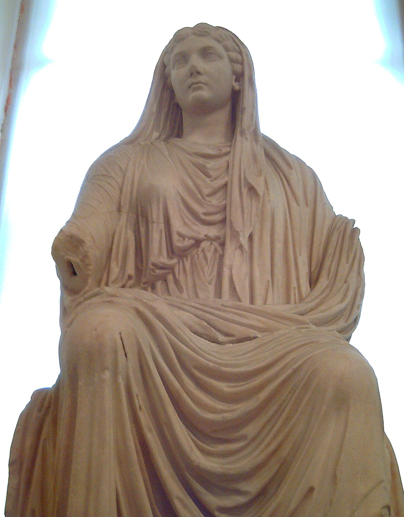 Front view of a sitting statue of Livia Drusilla (58 BC–29 CE).